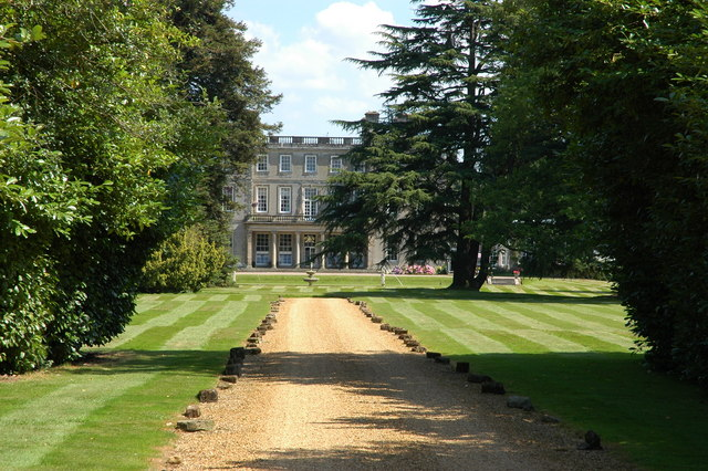 Umberslade Hall Large country house which has been converted to residential apartments. Pevsner states the house was 'built for Andrew Archer, the architect Thomas Archer's brother, C 1695-1700'.